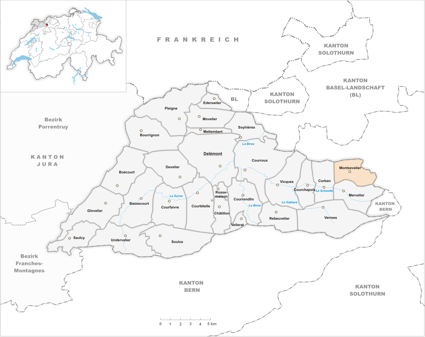 Municipality Montsevelier